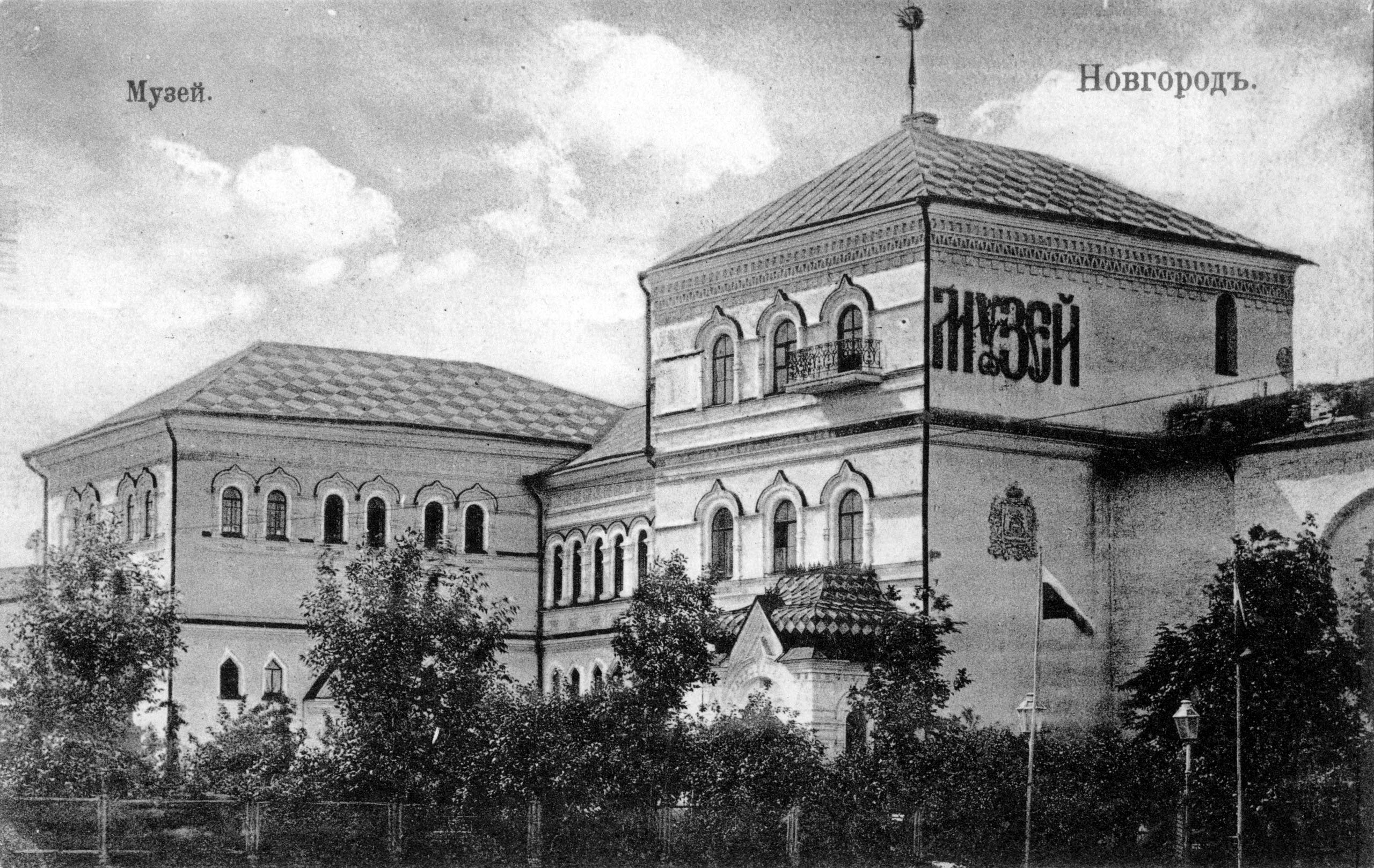 Museum in Detinets